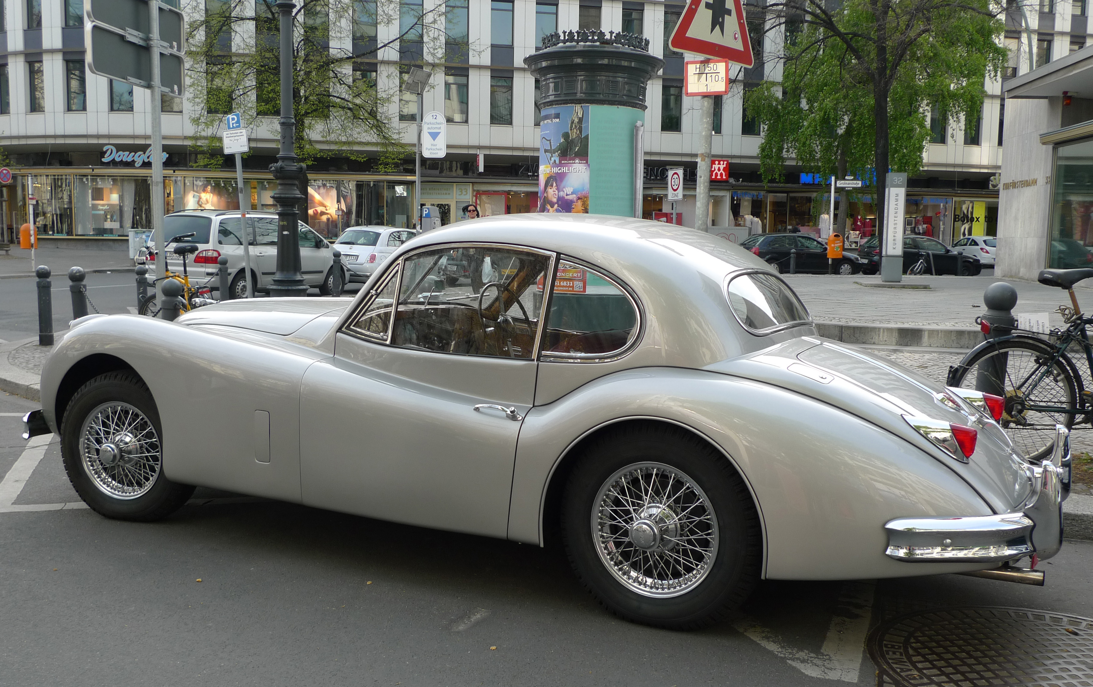 Jaguar XK 140 FHC at Uhlandstraße, Berlin